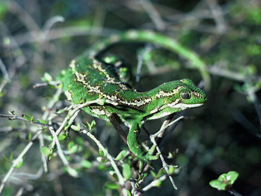 Naultinus gemmeus by Rod Morris